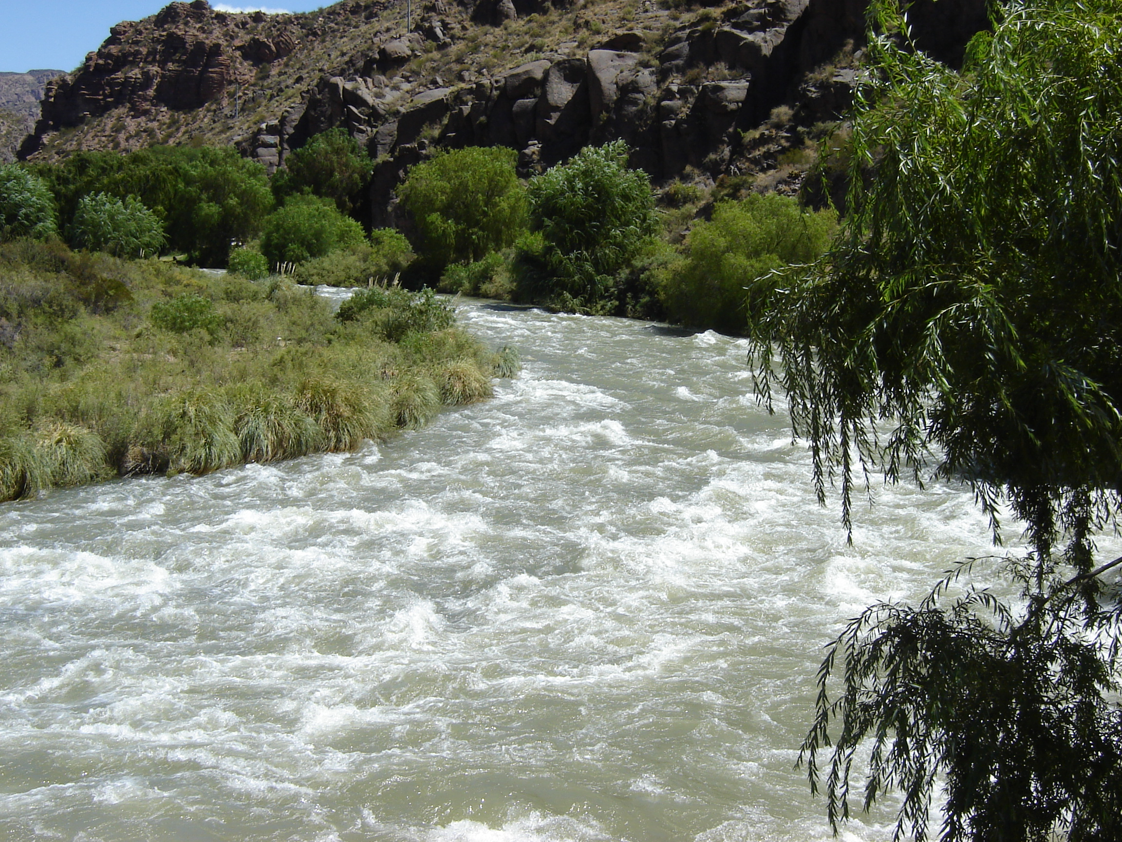 Atuel River in San Rafael, Mendoza Province, Argentina.